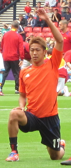 2012 Olympic Football in Glasgow